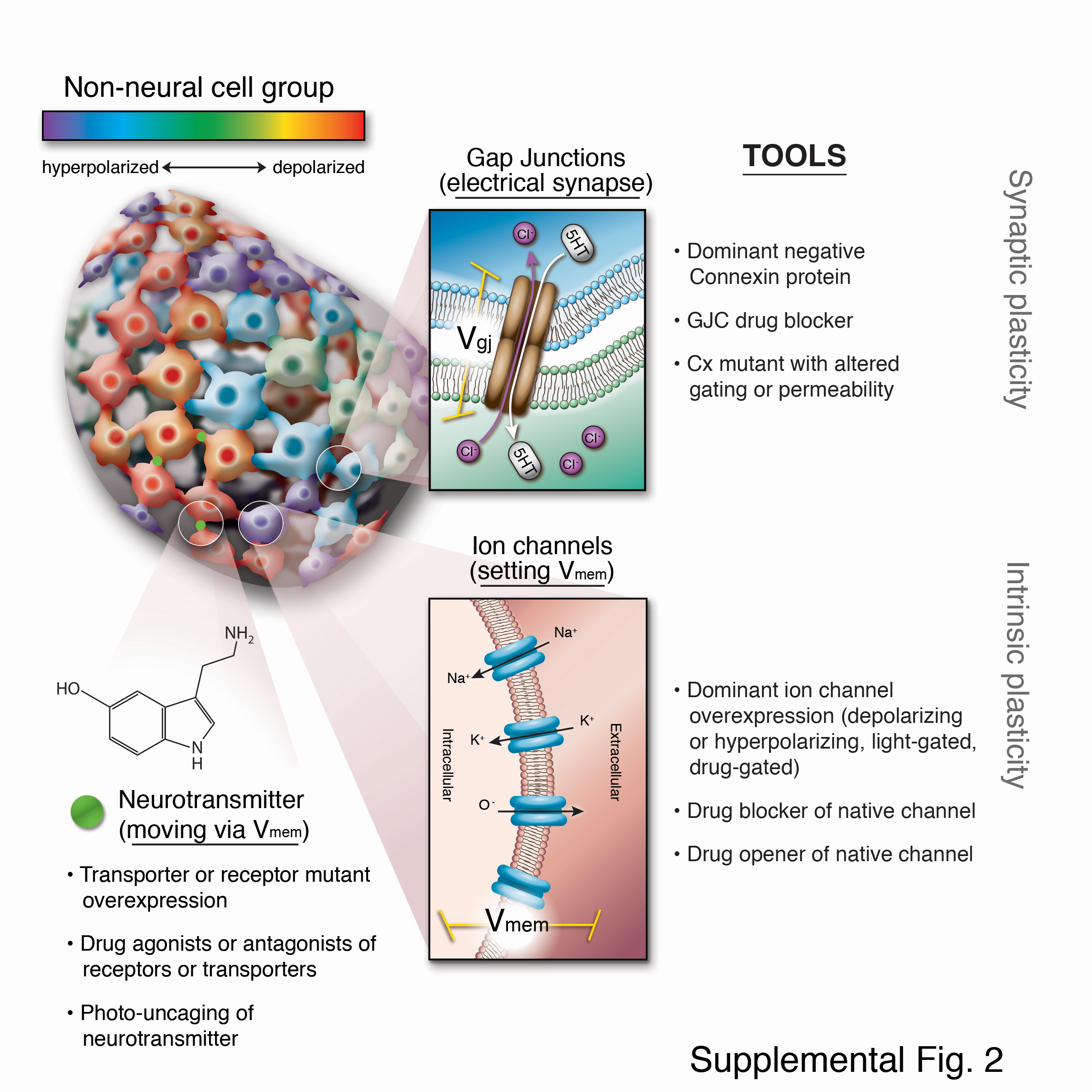 Illustration – Gap junctions, Ion channels, Neurotransmitter